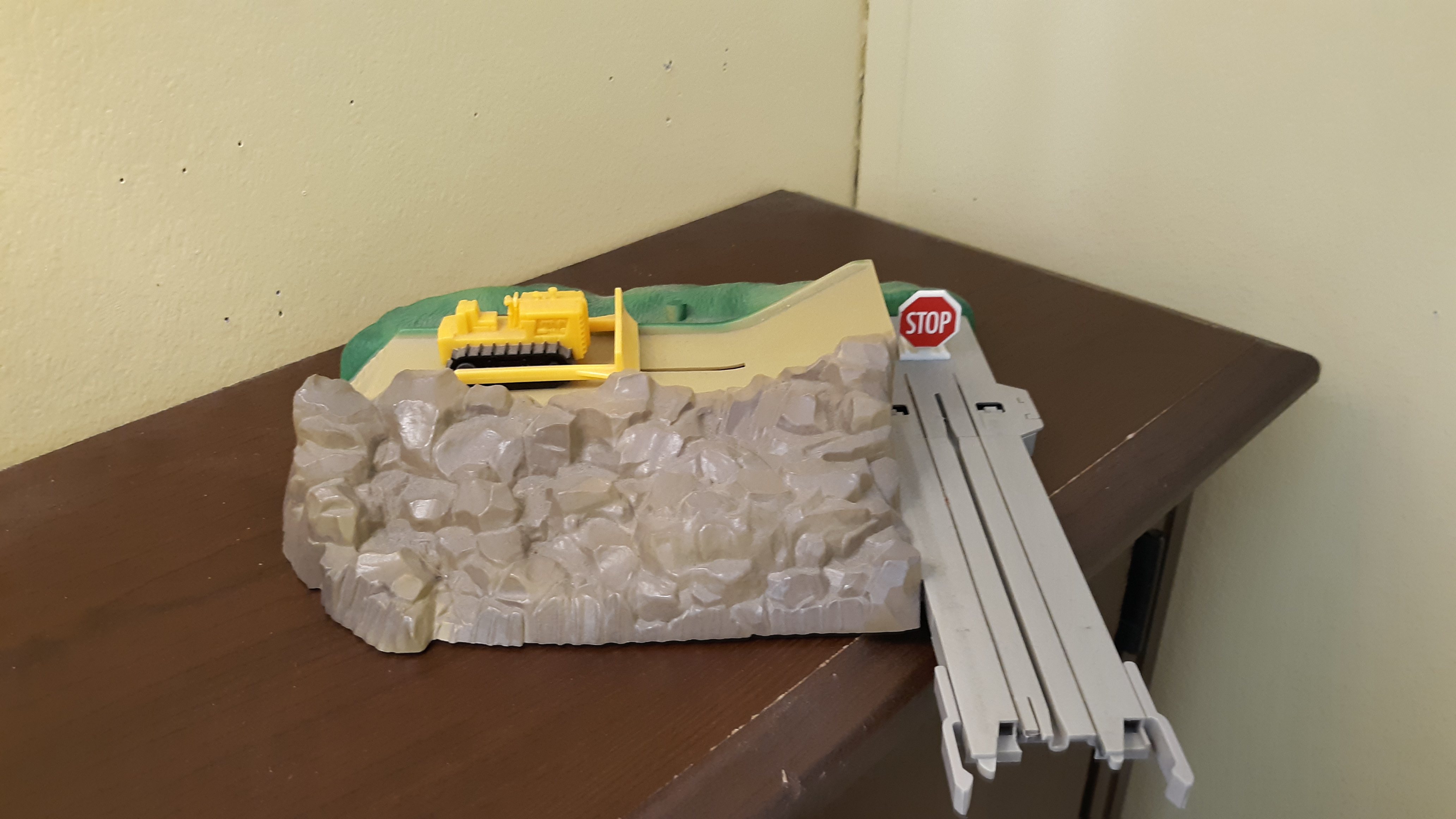 Log loading Bulldozer